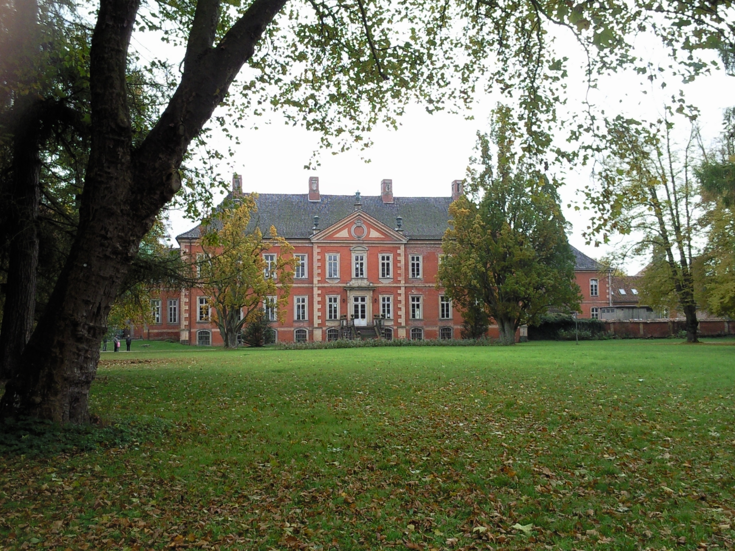 Bothmer Palace, the northern facade